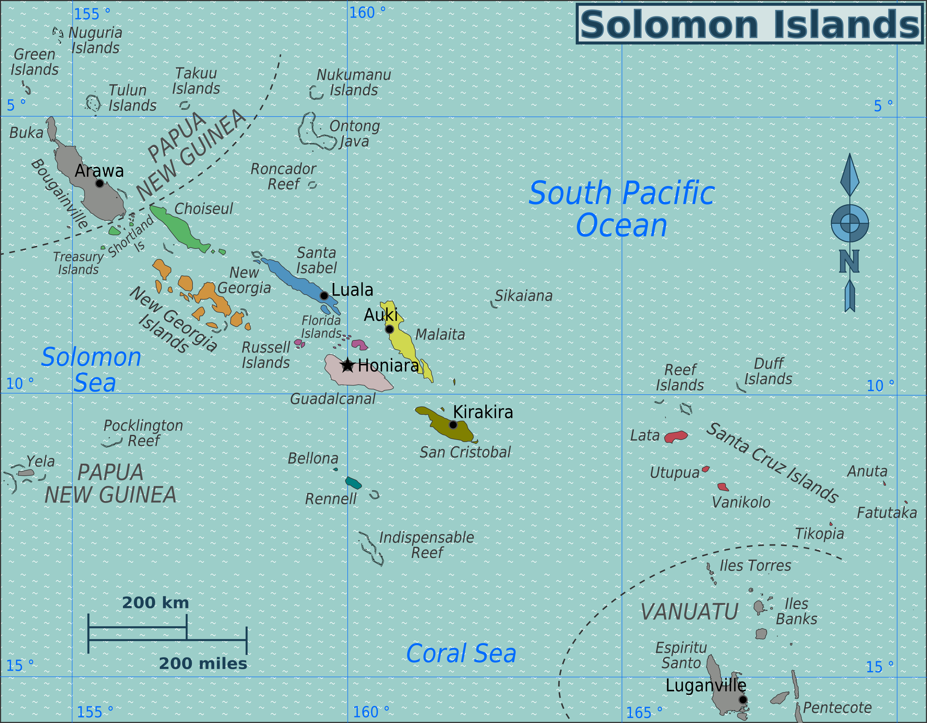 Map of Solomon Islands. PNG, Solomon Islands Map of: Solomon Islands¤.